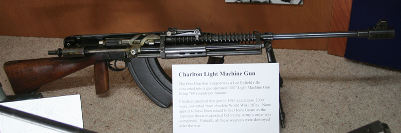 Photograph of Charlton Automatic Rifle at the Waiouru Army Museum in New Zealand